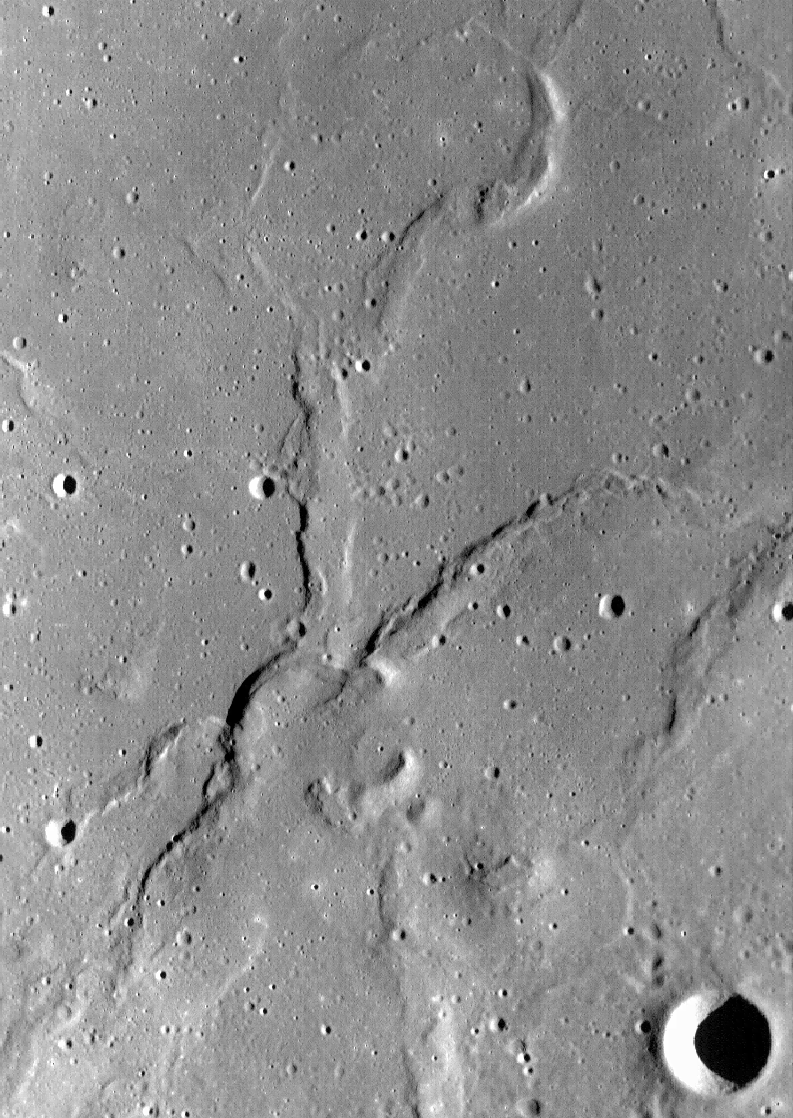 Dorsa Andrusov on the Moon, in western Mare Fecunditatis. Big crater in lower right is Webb D. Photo by Lunar Reconnaissance Orbiter, made with Wide Angle Camera on 14 June 2010 from altitude 40 km. Sun elevation is 13.4°. Size of the photo is 50×70 km, north is up.